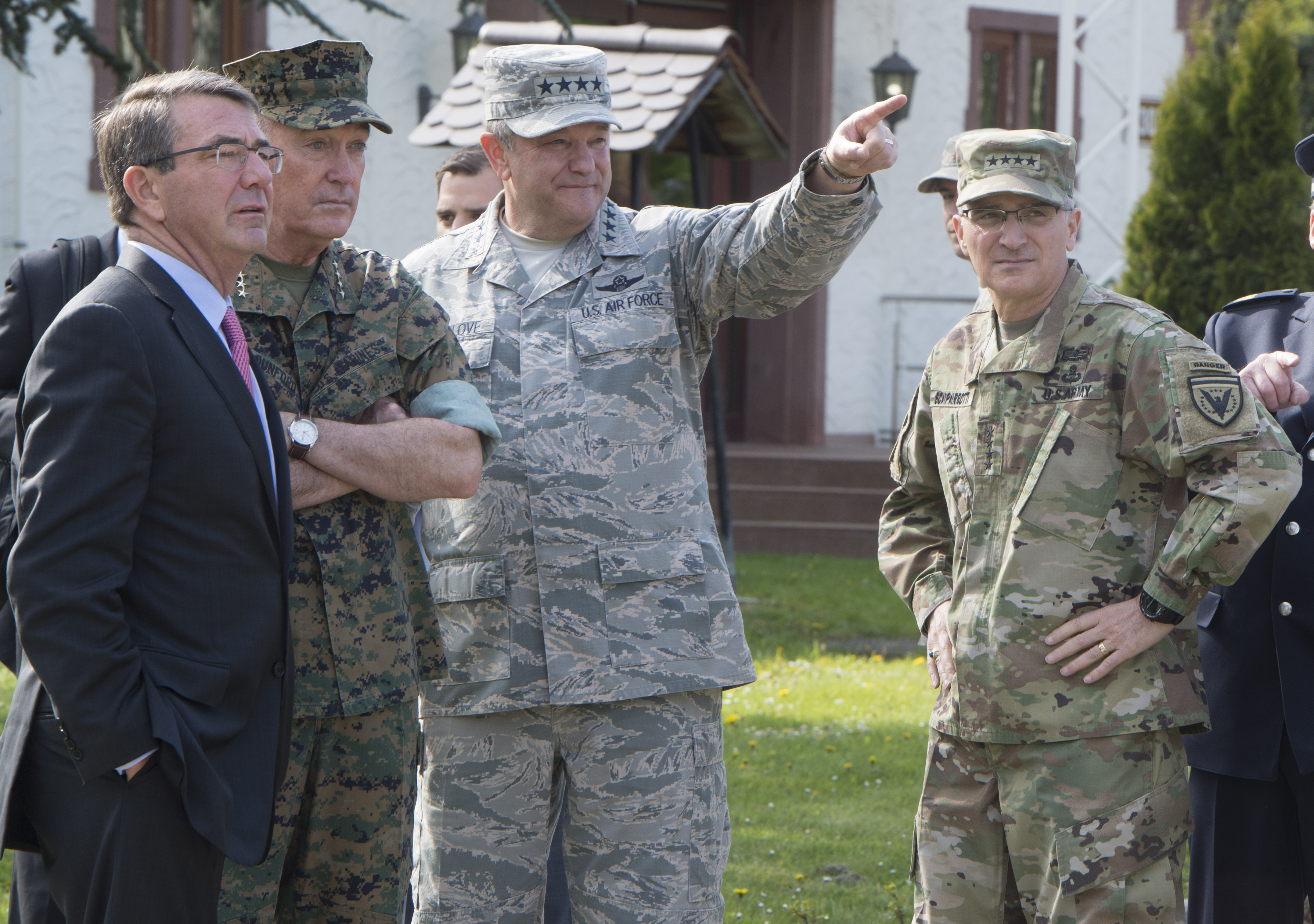 STUTTGART, Germany(May 3, 2016) Secretary of Defense Ash Carter and Chairman of the the Joint Chiefs of Staff Gen. Joseph Dunford talk with the incoming and outgoing EUCOM commanders at the United States European Command change of command ceremony. Air Force Gen. Phillip Breedlove was relieved by Army General Curtis Scaparrotti as Commander of EUCOM and NATO Supreme Allied Commander (DoD photo by Navy Petty Officer 1st Class Tim D. Godbee)(Released)